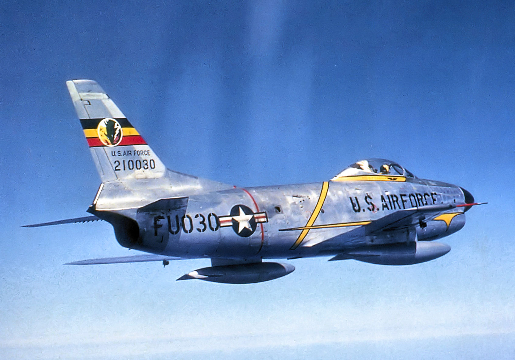 512th Fighter-Interceptor Squadron - North American F-86D-50-NA Sabre - 52-10030